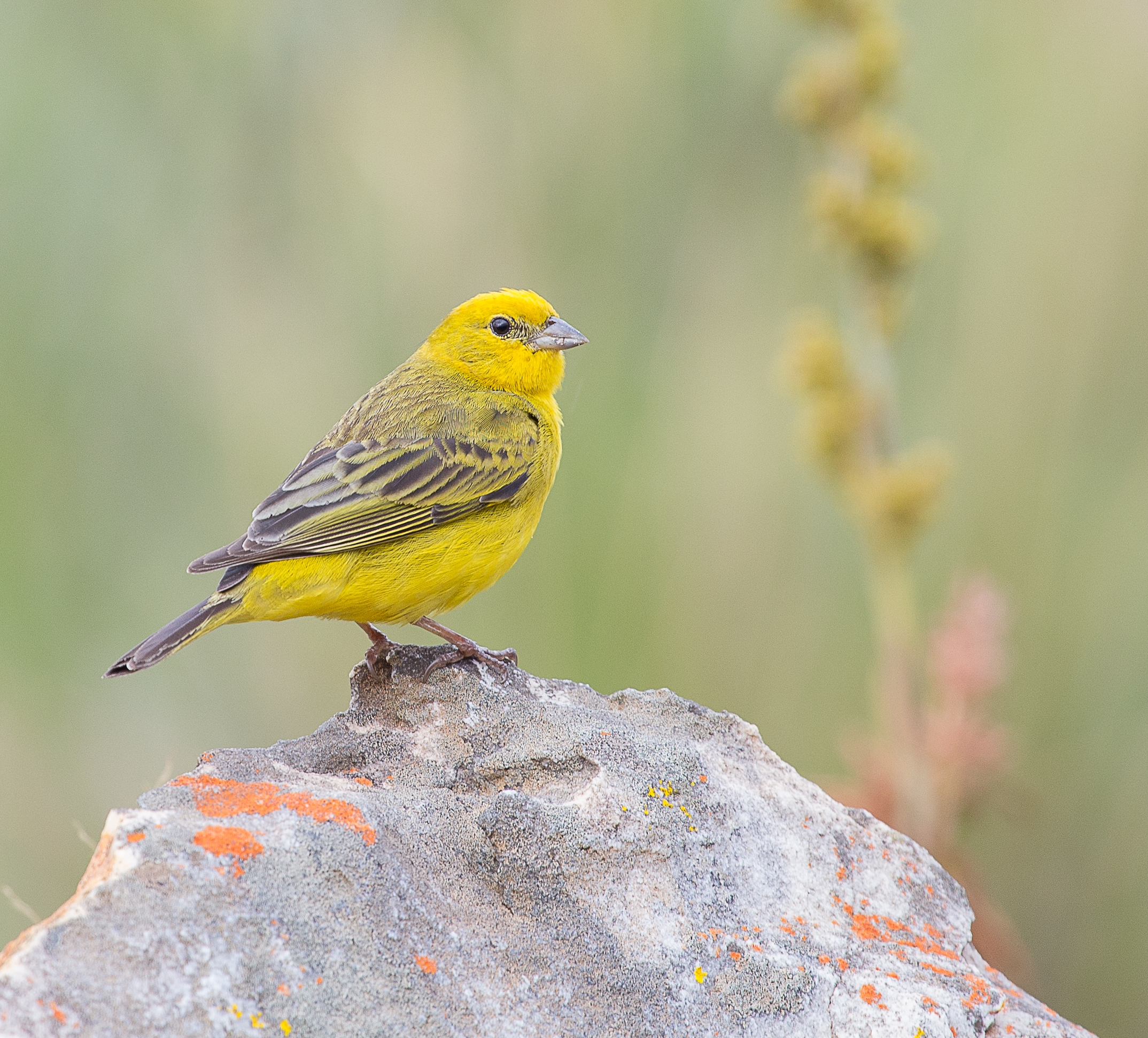 Male Sicalis citrina (Stripe-tailed Yellow-finch) at Serra do Cipó, Minas Gerais, Brazil